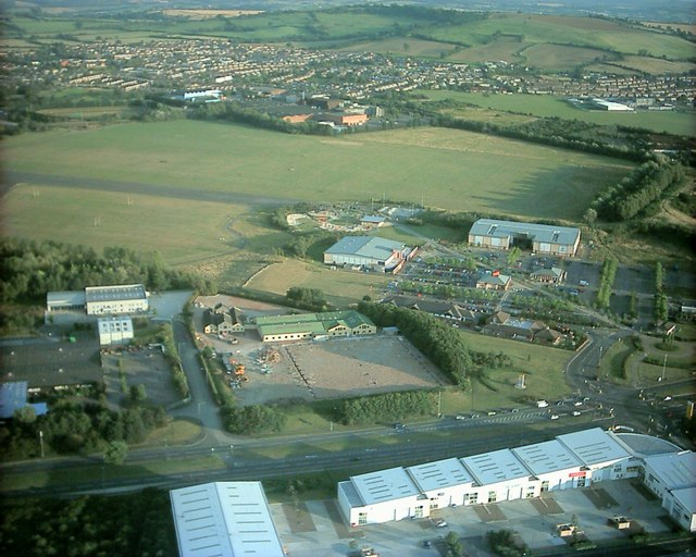 Hengrove Park in Hengrove, Bristol, England. The park is built on the site of the former Whitchurch airfield, the predecessor to Bristol International Airport